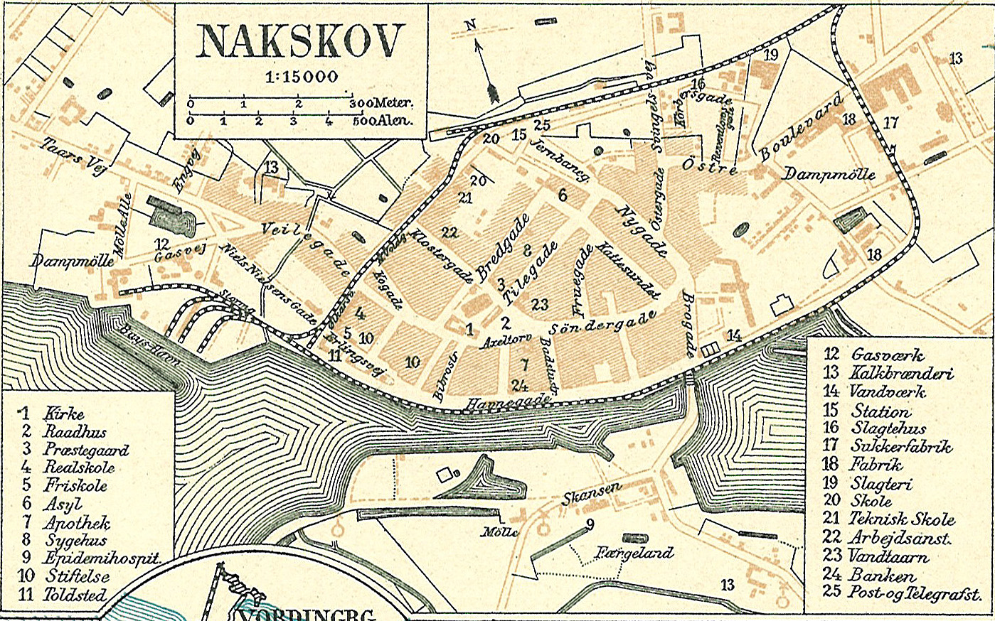 Map of Nakskov on Lolland in Denmark